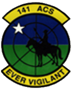 Patch of the 141st Air Control Squadron, Puerto Rico Air National Guard, U.S. Air Force.